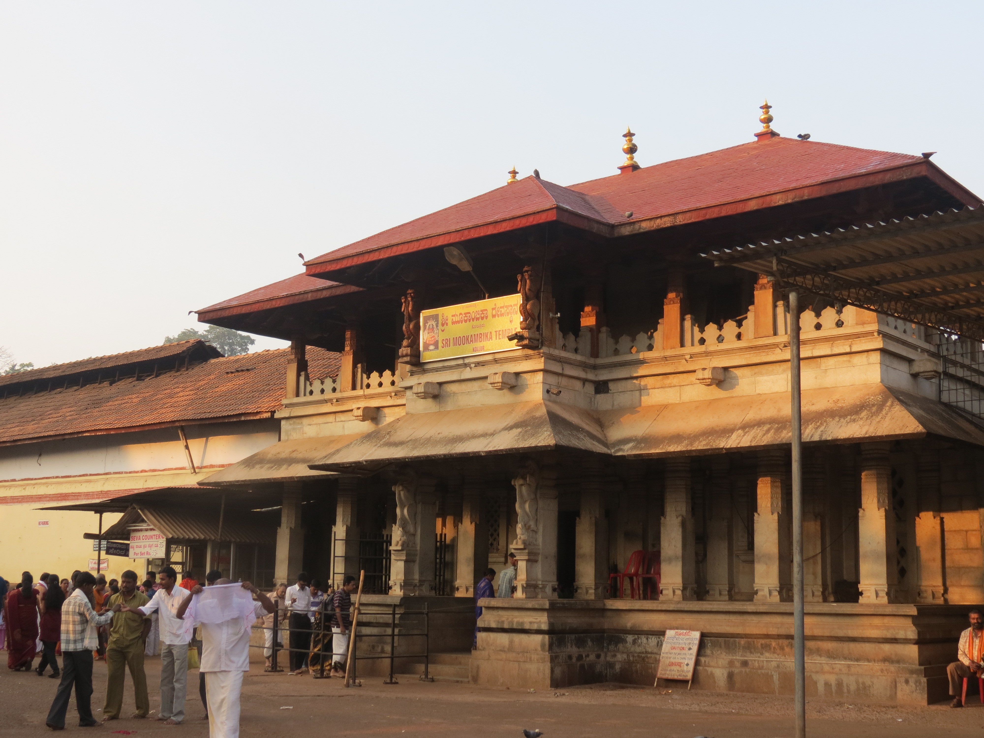 Sri Mookambika Temple, Kollur